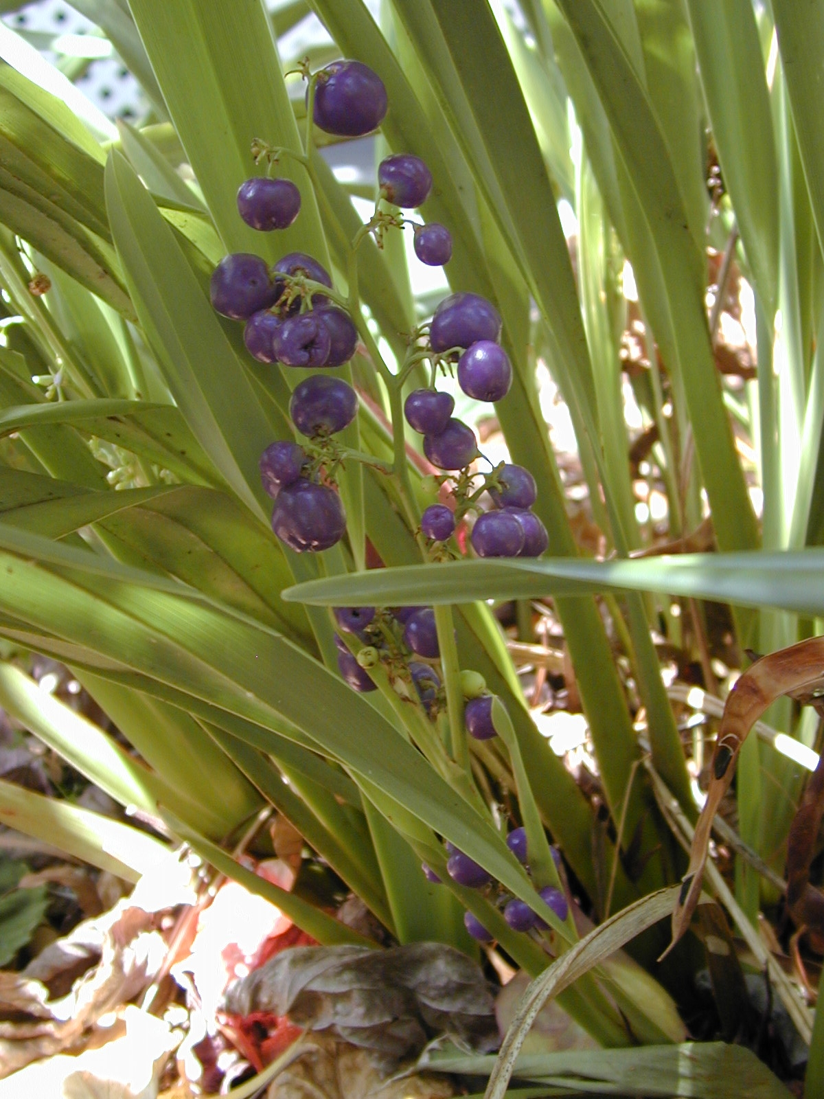 Dianella sandwicensis (fruits). Location: Maui, Makawao